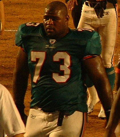 If used somewhere other than Wikipedia, Nelson, by name.